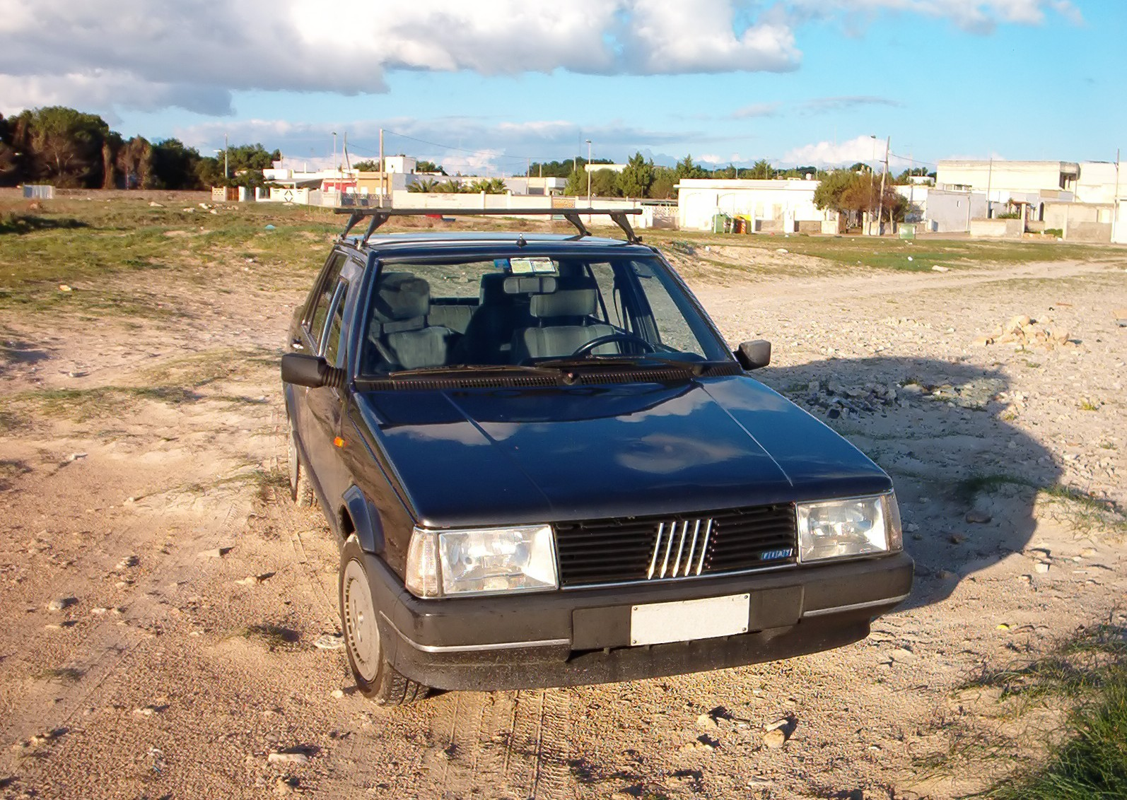 Fiat Regata, Mark 2 (after 1986 restyling). This one is from 1988.